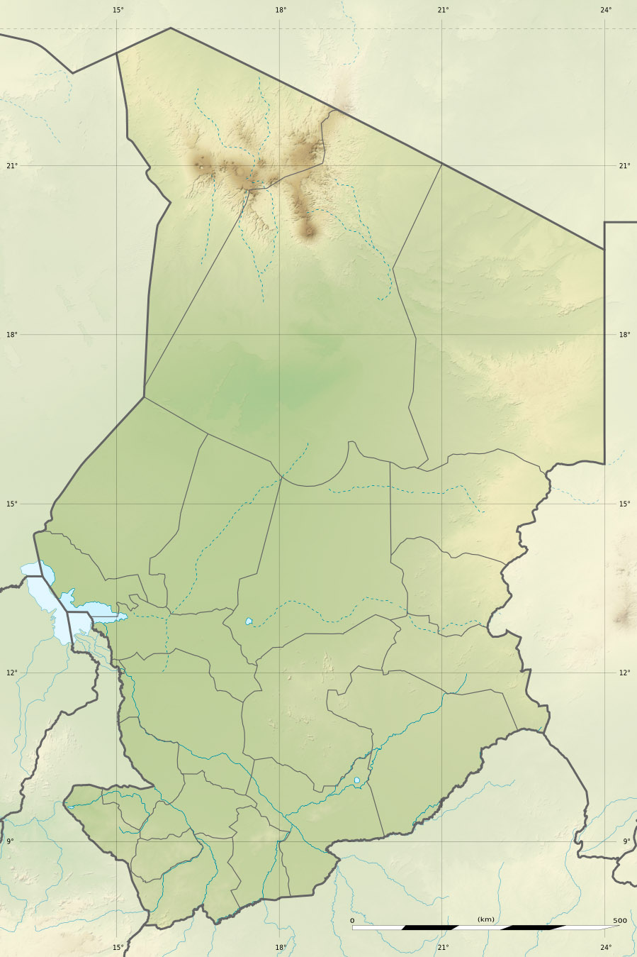 Blank physical map of Chad as since the 2008-02 reform of the Regions, for geo-location purposes.